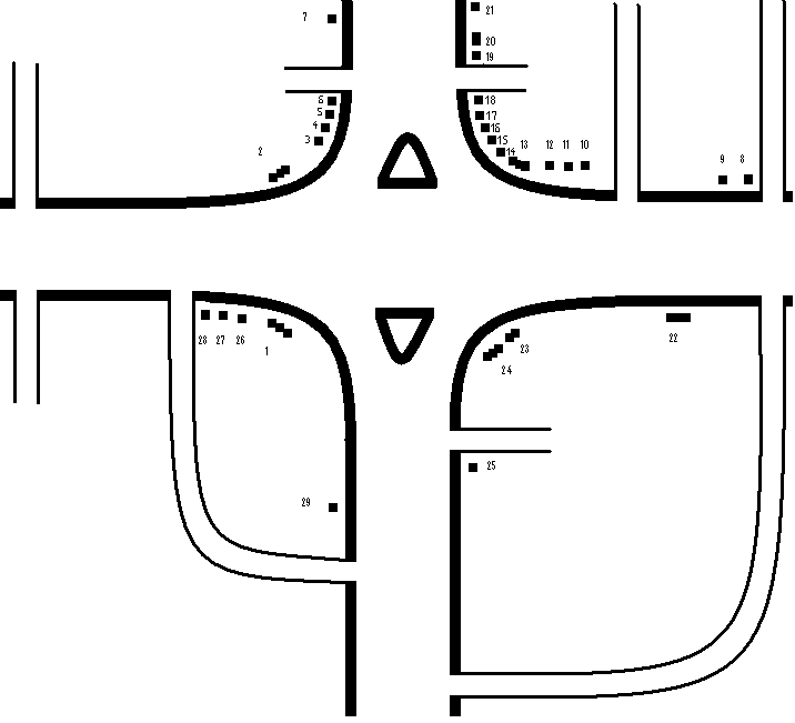 Entronque de Herradura